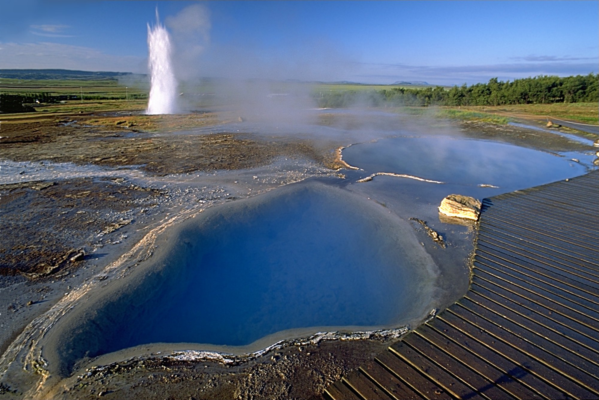 Hot spring "Blesi" in Haukadalur, in background geysir "Strokkur", Iceland Photo was taken using the following technique: Film: Fuji Velvia Lens: 2.0/20 Filter: none Body: Minolta 600si Support: Gitzo Monotrek Image with Information in English Bild mit Informationen auf Deutsch